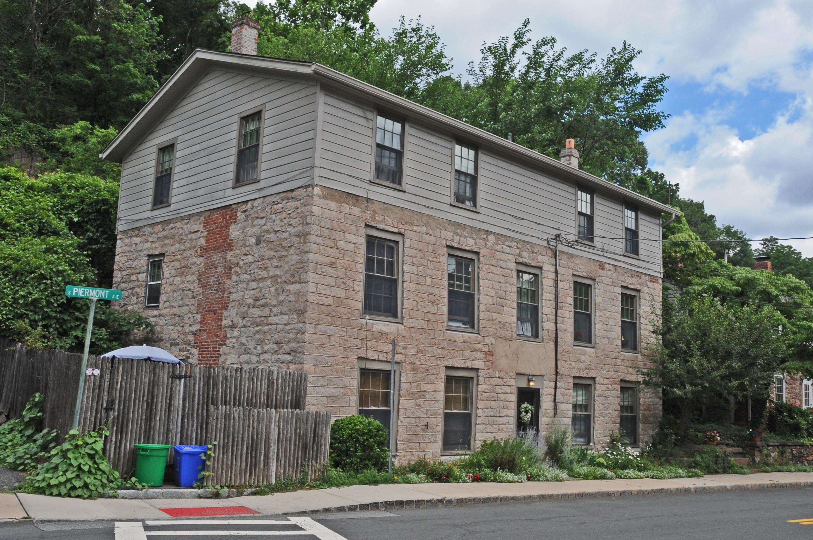 THE BRIDGE IS IN THE CENTER OF THE DISTRICT BUT ALL THE HOUSES SURROUNDING THE BRIDGE ARE PART OF THE DISTRICT WHICH IS THE OLDEST PART OF PIERMONT. THIS HOUSE AT 264 PIERMONT AVENUE WAS BUILT CIRCA 1800 AND IT IS RUMORED THAT AARON BURR SPENT THE NIGHT IN THIS HOUSE AFTER HIS FATAL DUEL WITH ALEXANDER HAMILTON